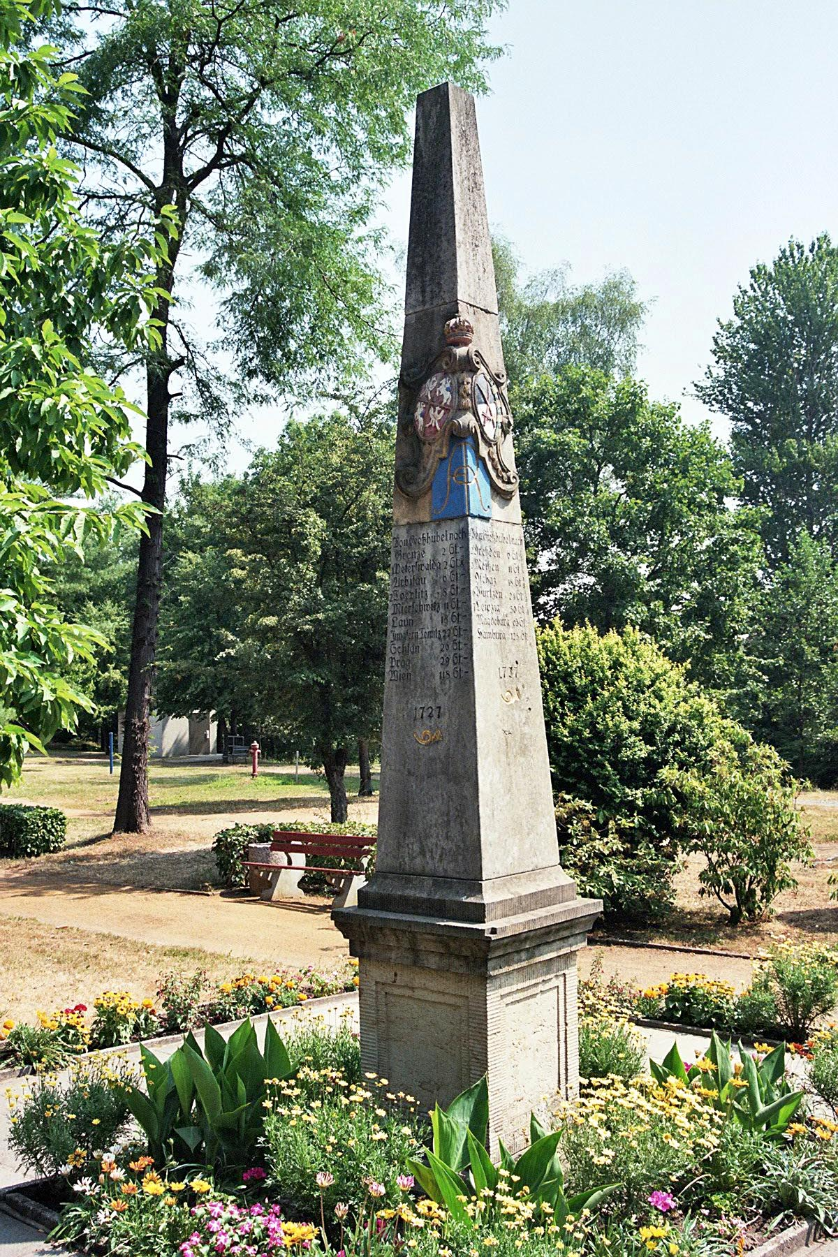 Berggießhübel: The electoral saxonian post mile pillar from 1727.